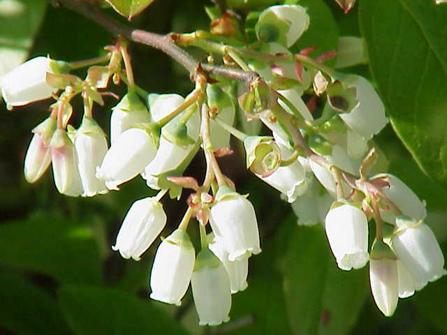 Species: Vaccinium corymbosum Family: Ericaceae Image No. 1